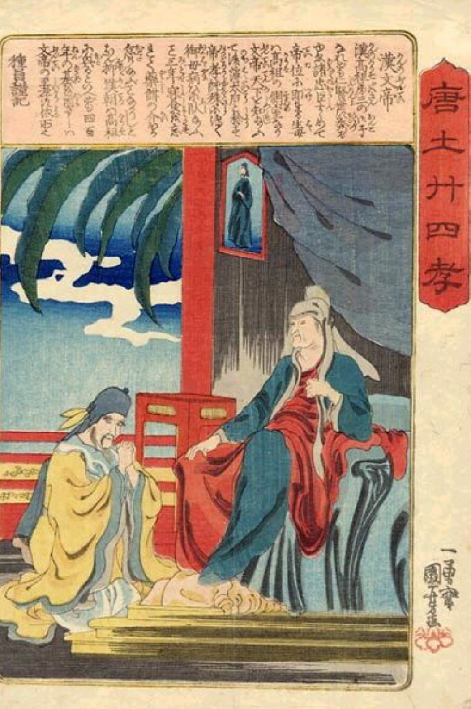 Chūban format, tate-e (portrait)